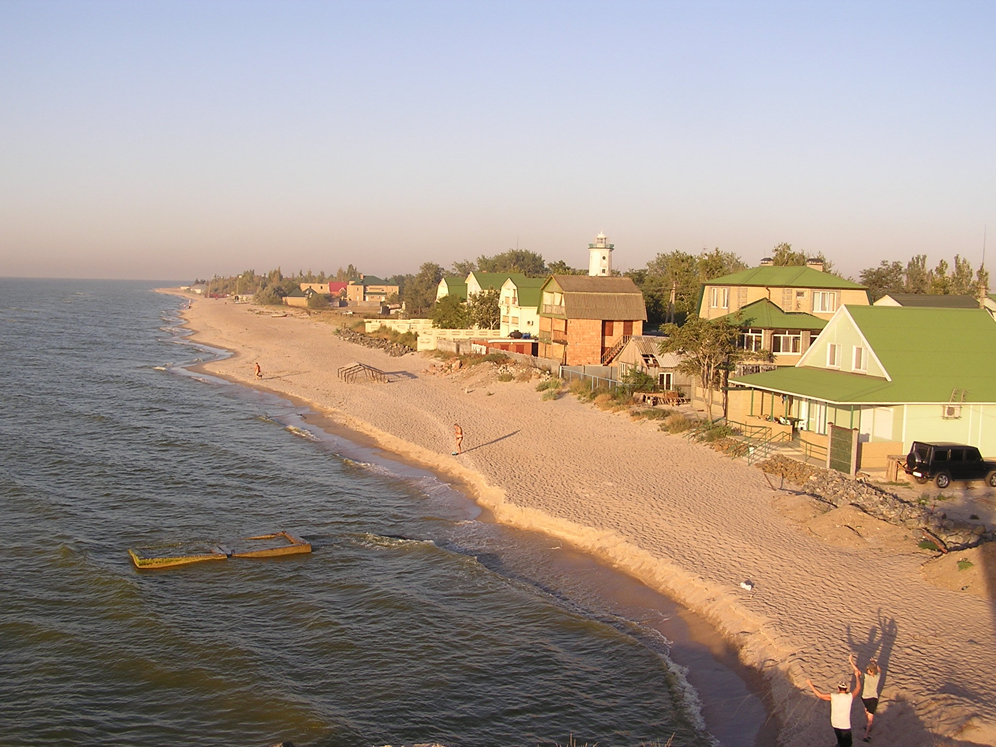 Beach on Belosarayskaya Spit in the Sea of Azov.